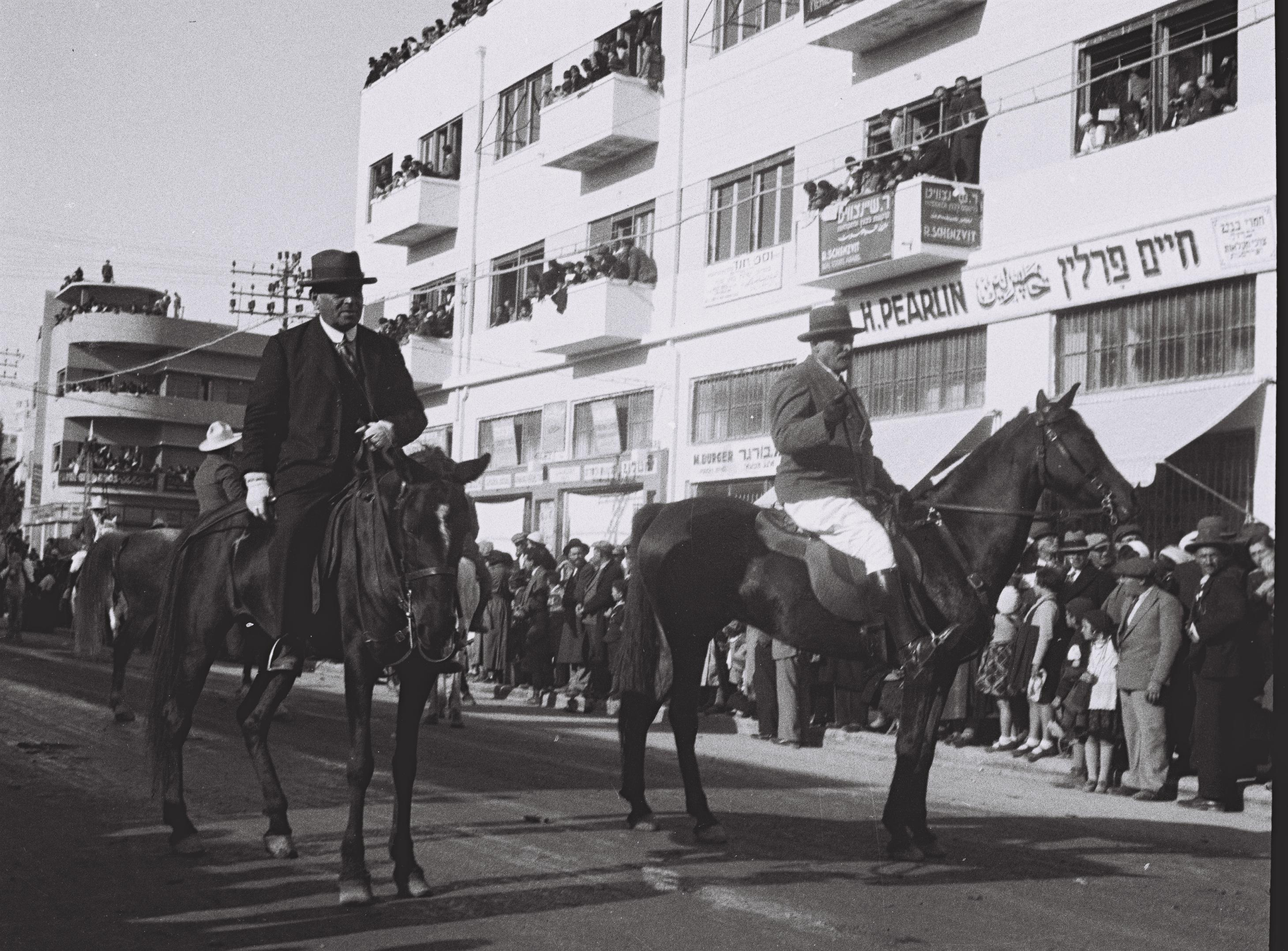 TEL AVIV MAYOR MEIR DIZENGOFF & THE VETERAN "SHOMER" AVRAHAM SHAPIRA LEADING THE PURIM "ADLOYADA" PARADE IN TEL AVIV.